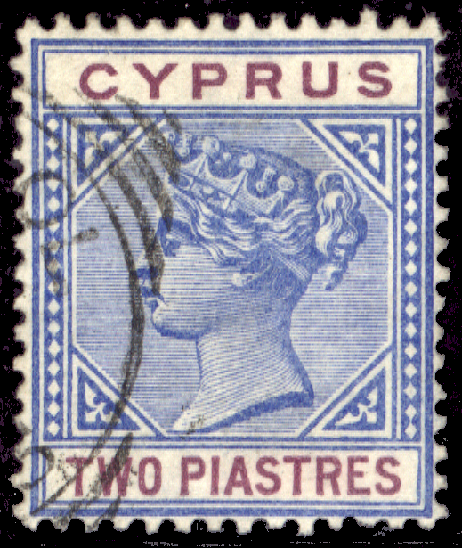 Stamp of Cyprus (British Administration), 2 pi.